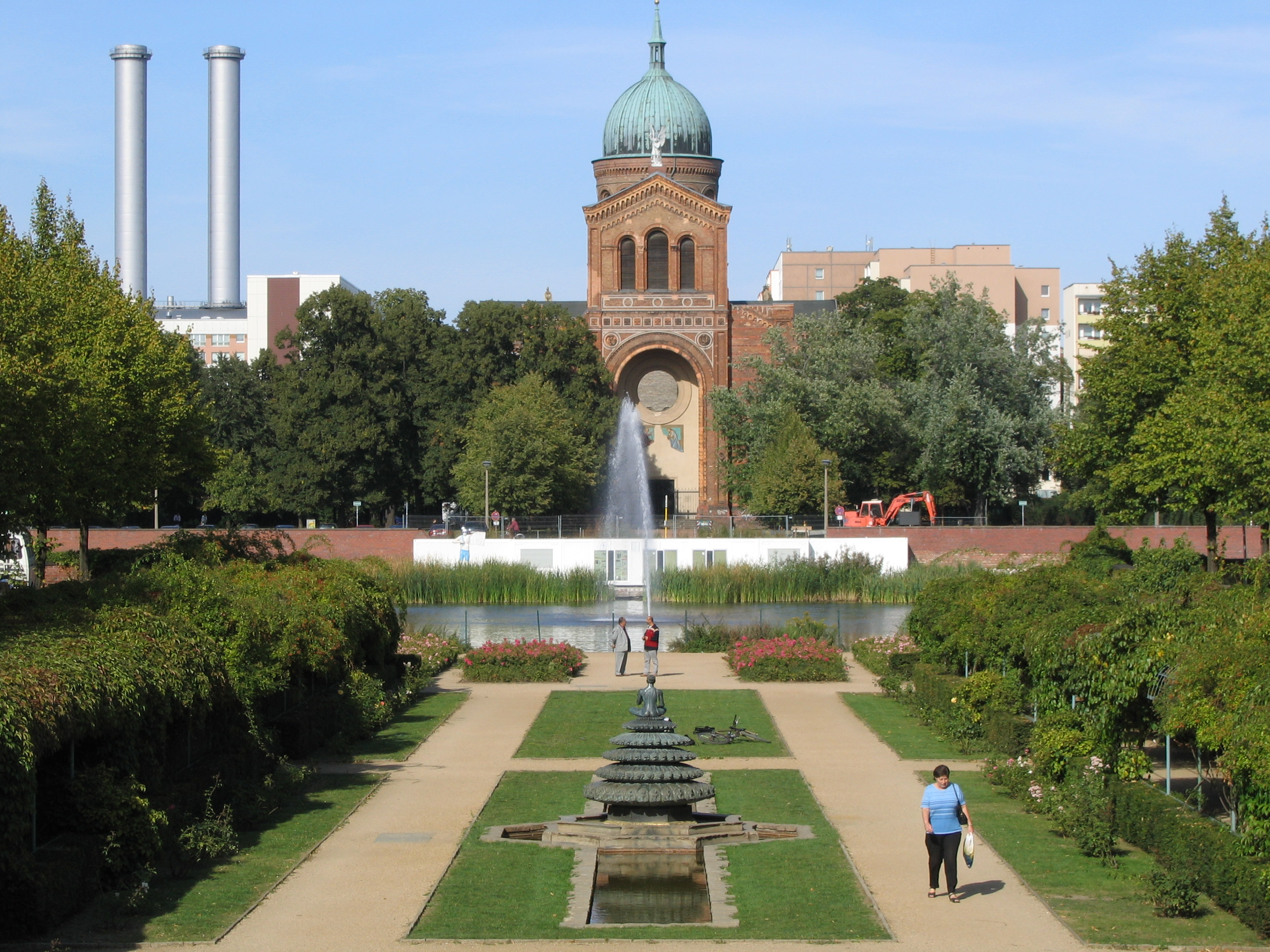 The Saint Michael church (Sankt Michaelskirche) in Berlin with the former Luisenstädtischer Kanal in Berlin